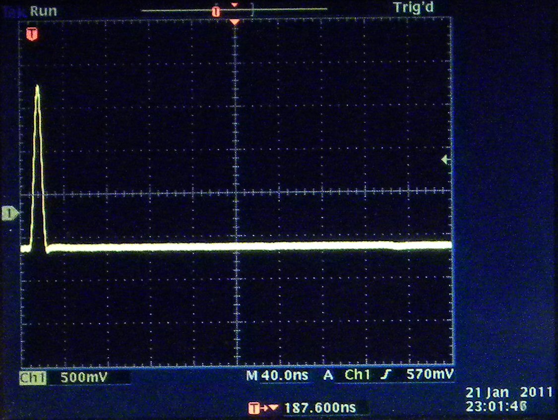 Oscilloscope trace from a TDR (Time Domain Reflectometer) connnected to a cable with a termination at the far end equal to its characteristic impedance.